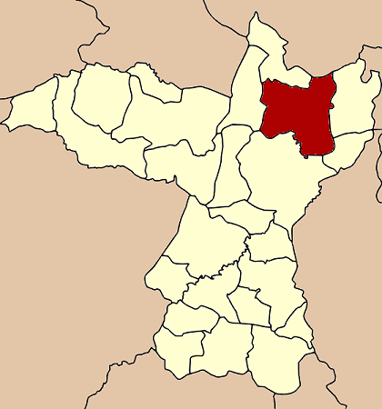 Map of Khon Kaen Province, Thailand, highlighting the district Nam Phong (อำเภอน้ำพอง)